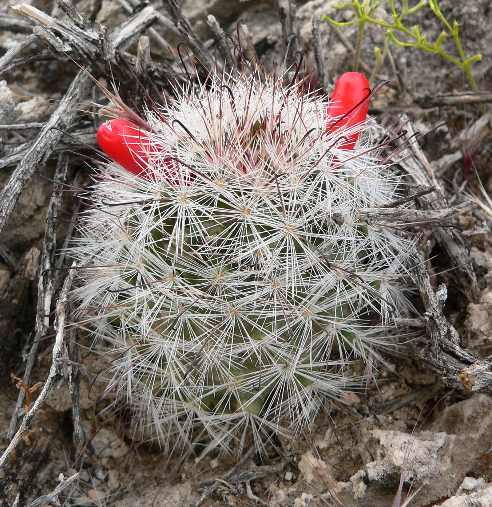 Photo of Mammillaria tetrancistra in the desert at the west end of Cheyenne Ave, Las Vegas, Nevada (Lone Mountain area)